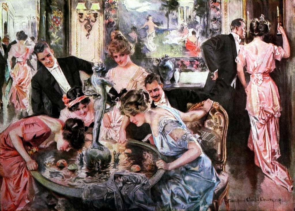 Howard Chandler Christy's painting "Halloween" as reproduced in Scribner's Magazine January 1916